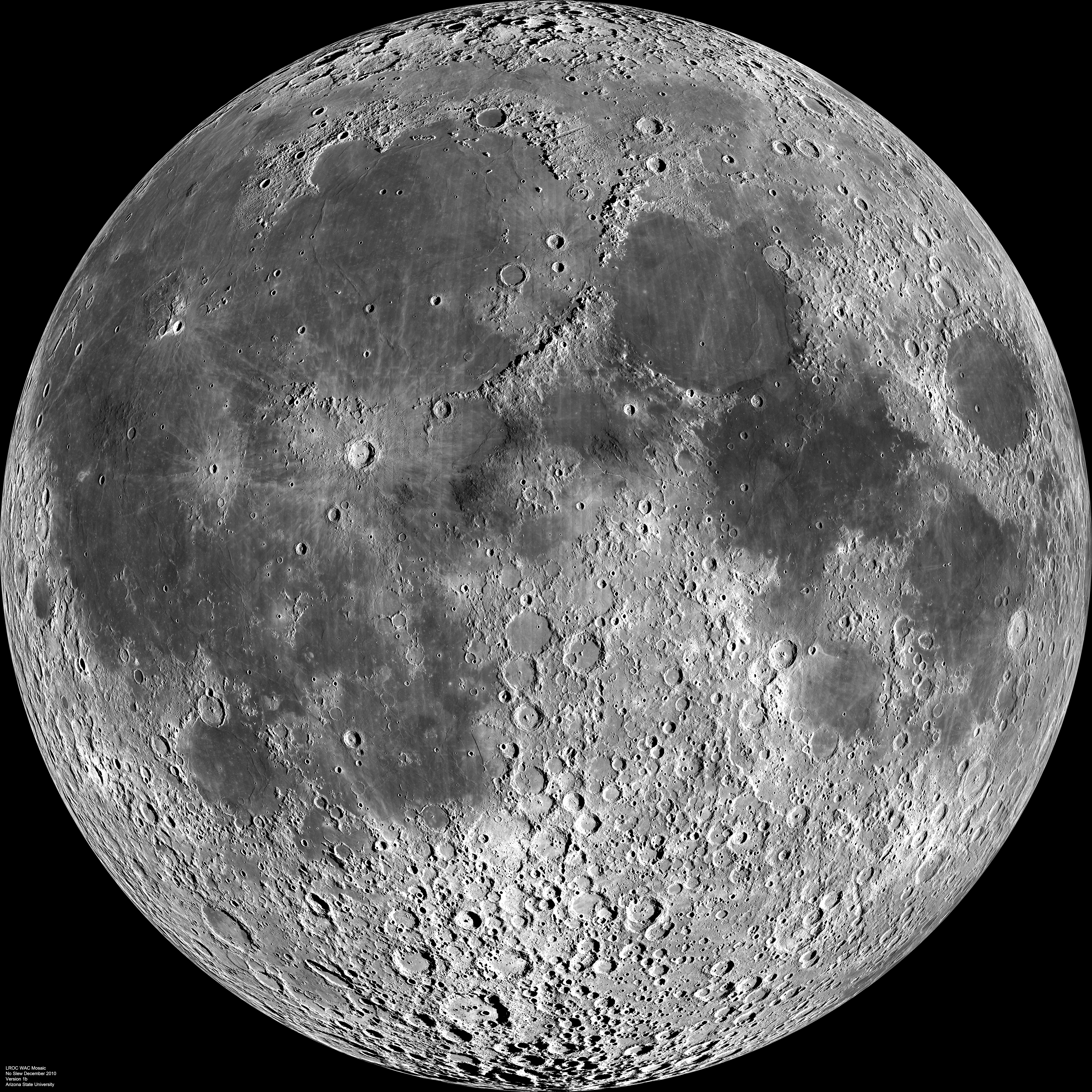 Moon nearside: mosaic of images, made by Lunar Reconnaissance Orbiter. The images were obtained with Wide Angle Camera (WAC), looking in nadir, during two weeks in mid-December 2010. Centered on latitude 0.0, longitude 0.0. Brightness of the original image was increased. This image shares angle of view, orientation and cropping with Moon nearside LRO 5000 (reflectance).jpg, so, they are interchargeable in positional maps.